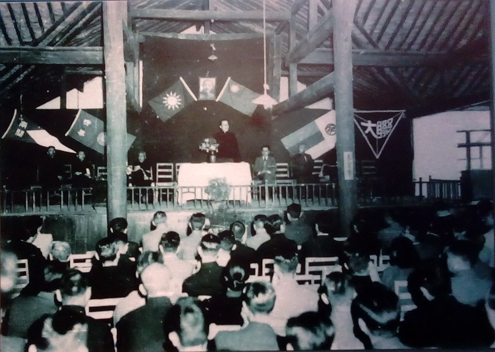 Official Ending of National Southwestern Associated University